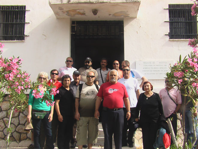 Haidari_concentration_camp_survivers_and_family_members. Credit: Courtesy of Arie Darzi to memorialize the Jewish community in Greece.